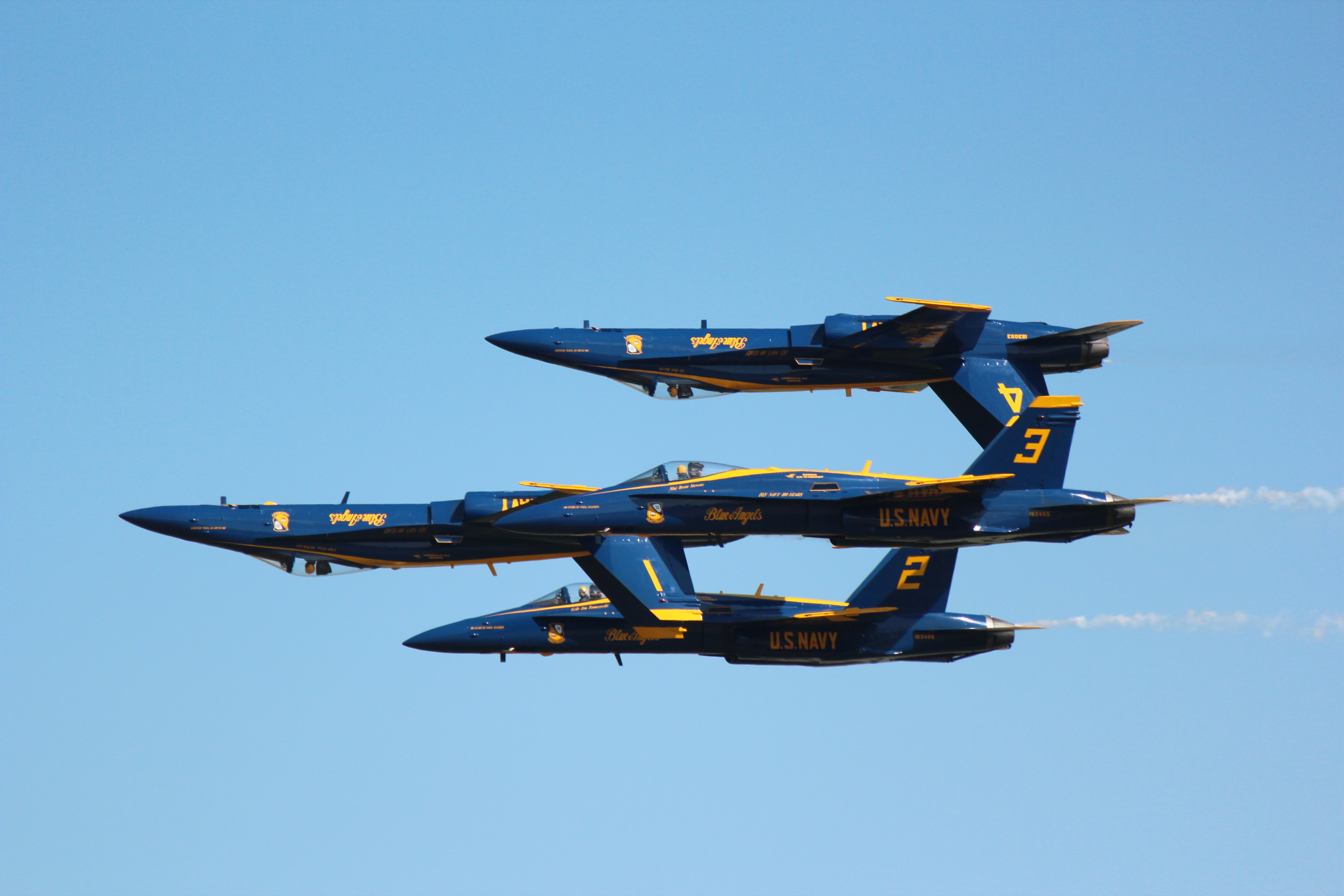 The Blue Angels perform the Double Farvel maneuver at the 2011 air show in Lincoln, NE.